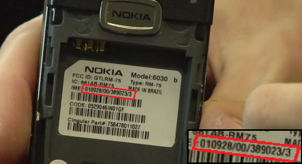 IMEI number of Nokia 6030.